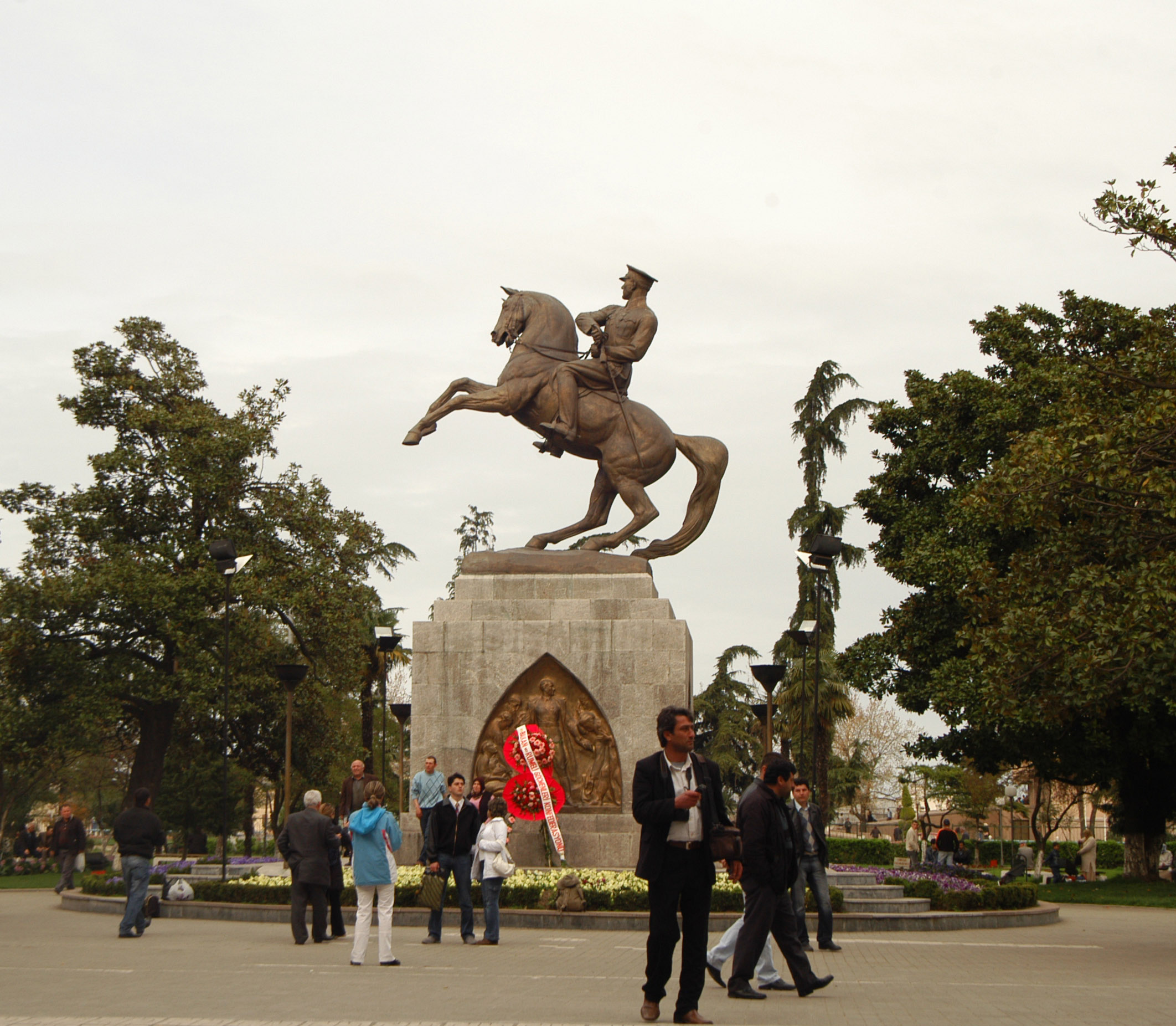 Statue of Atatürk, sign of Samsun, Turkey, made by Heinrich Krippel in 1931.